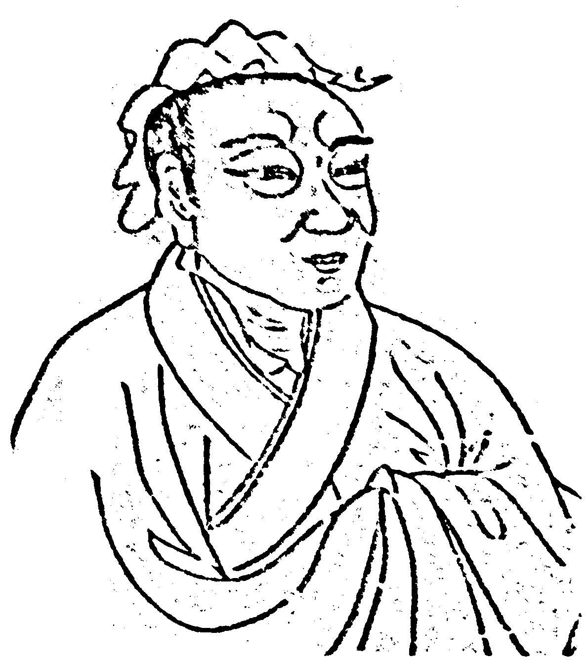 Sima Qian (ca. 145–90 BC) was a Prefect of the Grand Scribes (太史令) of the Han Dynasty.